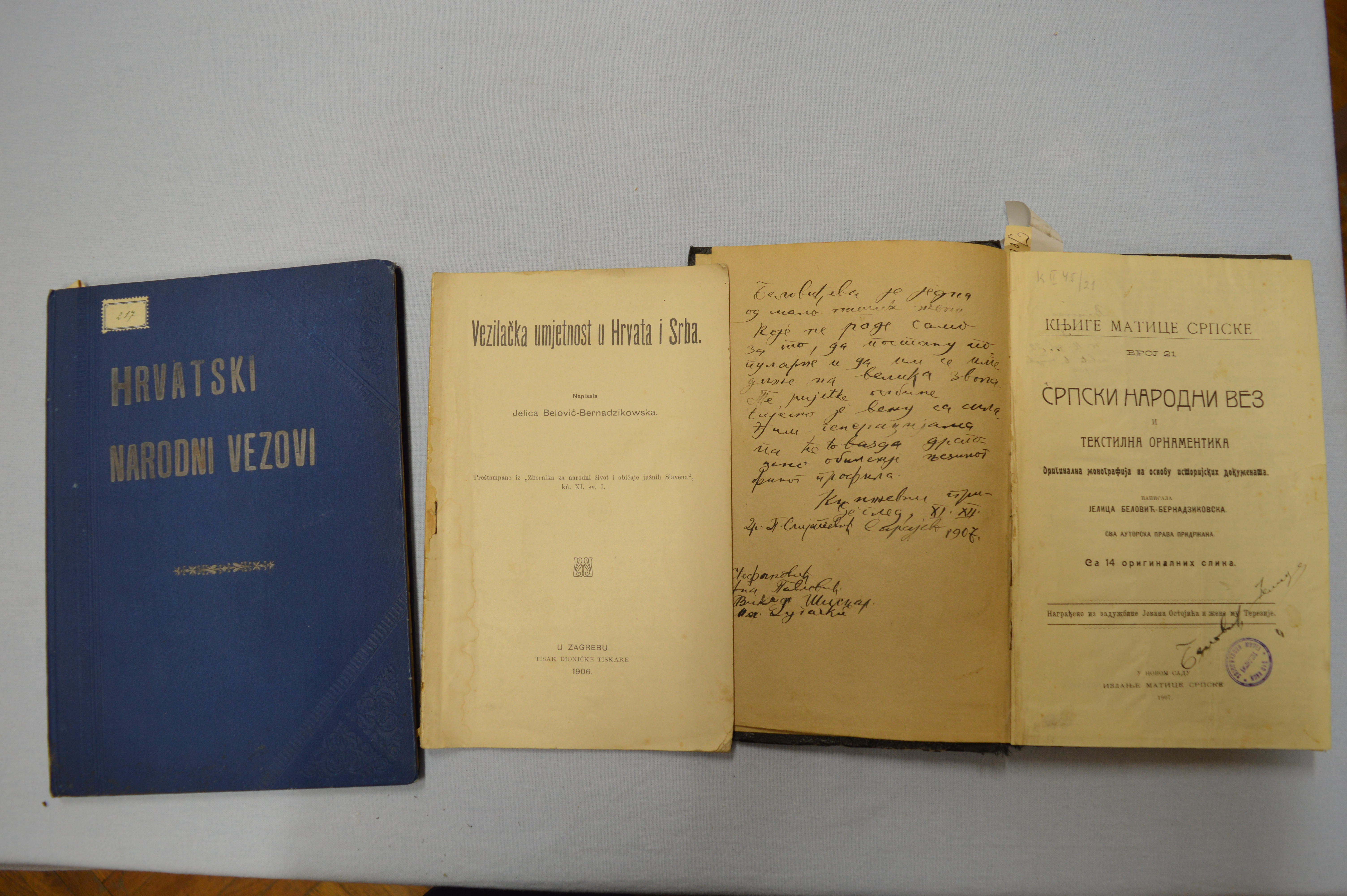 Photograph of books "Hrvatski narodni vezovi" (1906), "Vezilačka umjetnost u Hrvata i Srba" (1906) and "Srpski narodni vez i tekstilna ornamentika" (1907) by Jelica Belović-Bernađikovska. Srpski (latinica): Fotografija knjiga "Hrvatski narodni vezovi" (1906), "Vezilačka umjetnost u Hrvata i Srba" (1906) i "Srpski narodni vez i tekstilna ornamentika" (1907) autorke Jelice Belović-Bernađikovske.